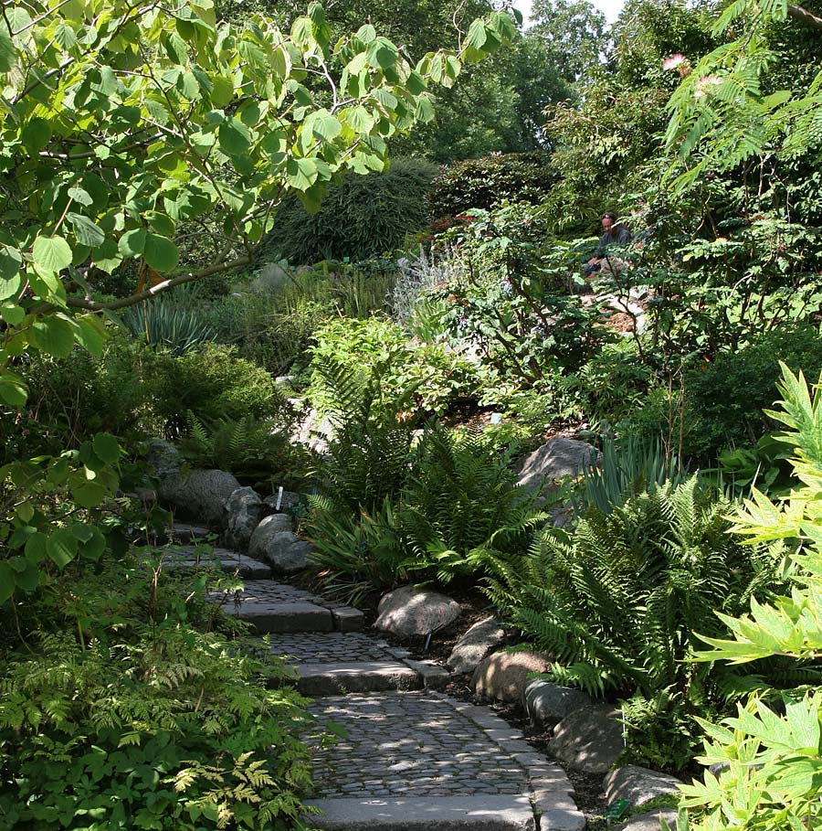 The "rock gardens" in Botanisk Have (University of Copenhagen Botanical Garden), Copenhagen, Denmark. This section of the garden contains mainly alpine plants.